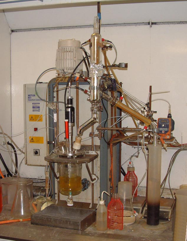 Mettler Toledo RC1 Calorimeter